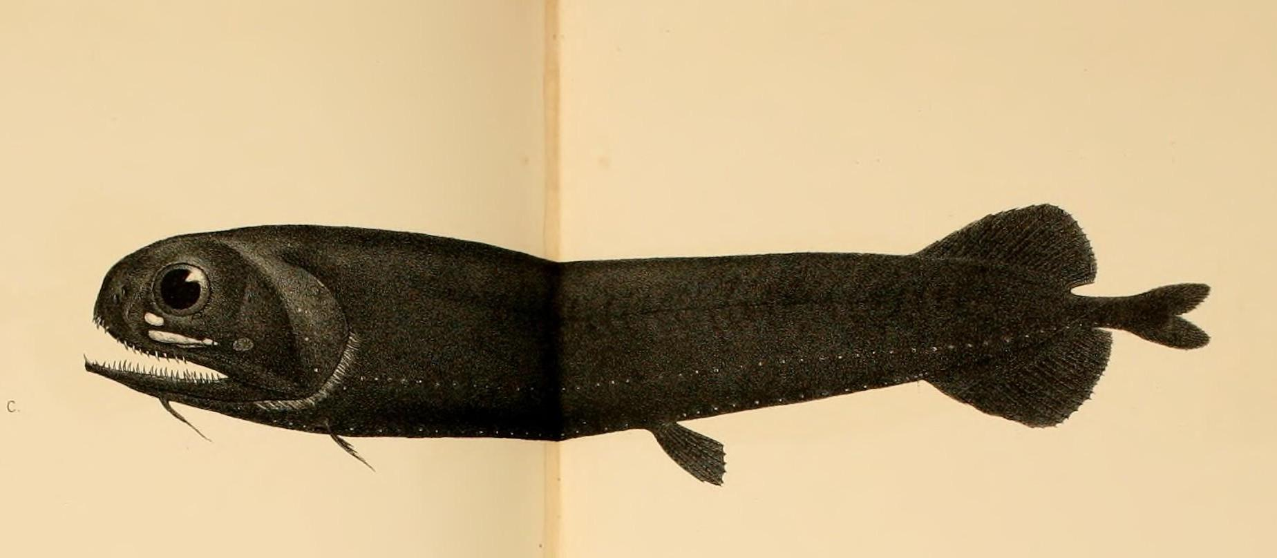 Pachystomias microdon